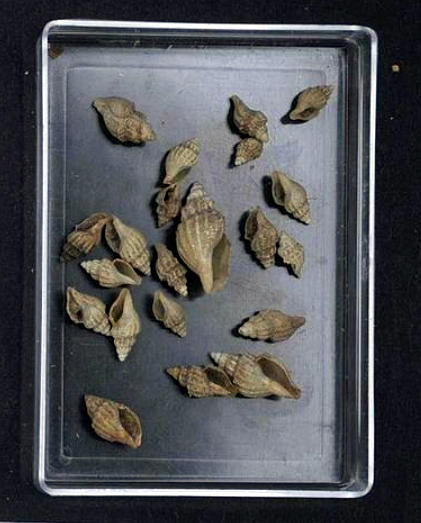 Propebela nobilis (Møller, 1842); family mangeliidae